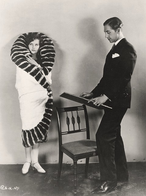 Greta Garbo and Max Rée (costume designer) - publicity still for Torrent (1926).